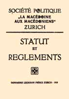 Statute et Reglements 1919